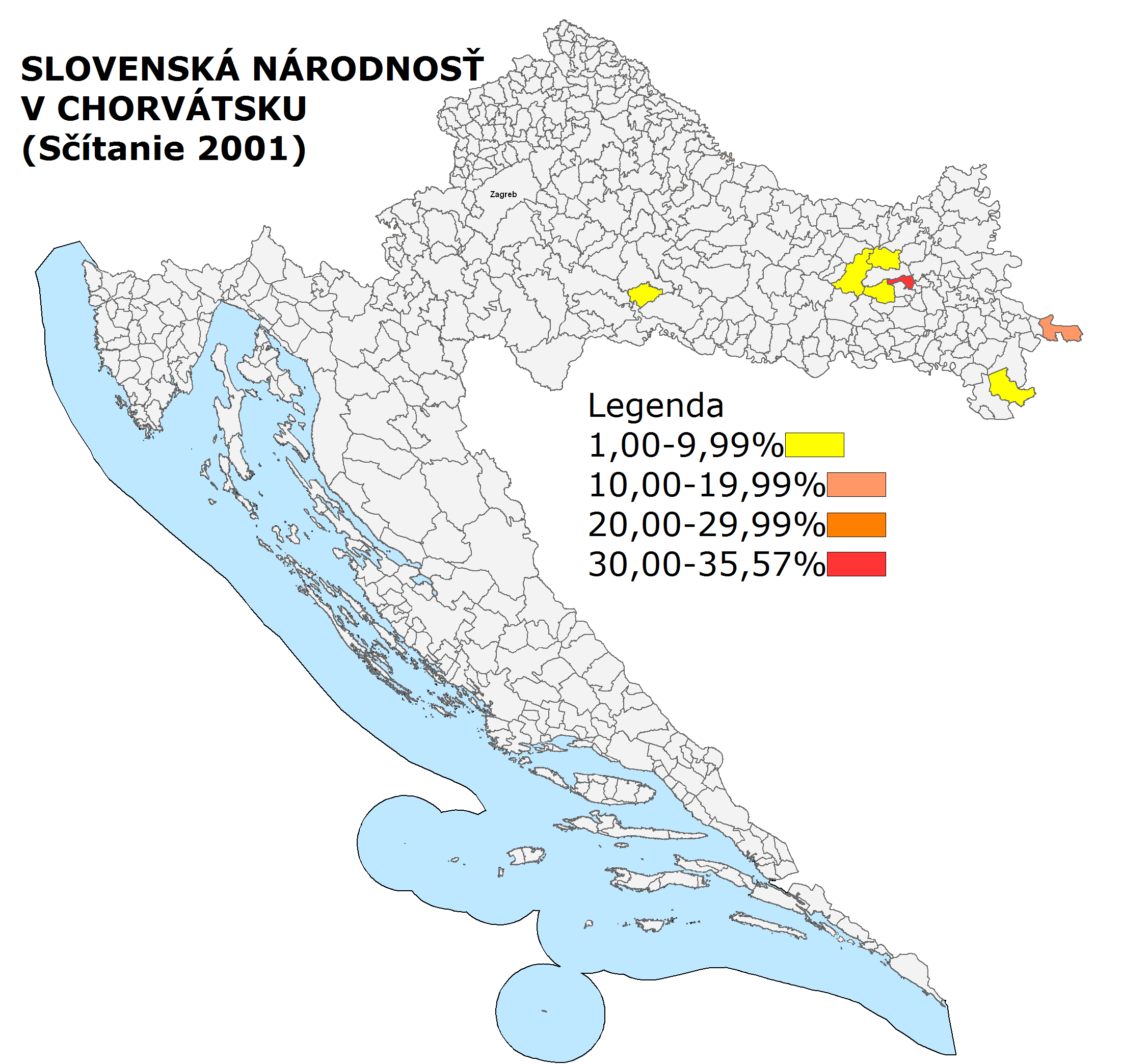 Slovaks settlement in Croatia (2001).